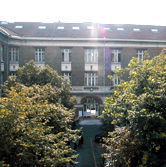 photo paris